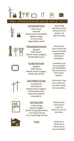 A breakdown of how electricity works in Alberta, Canada. Provides an overview of the steps electricity go through to reach the end user, and provides the name of utility companies in Alberta in each sector of the electricity market.